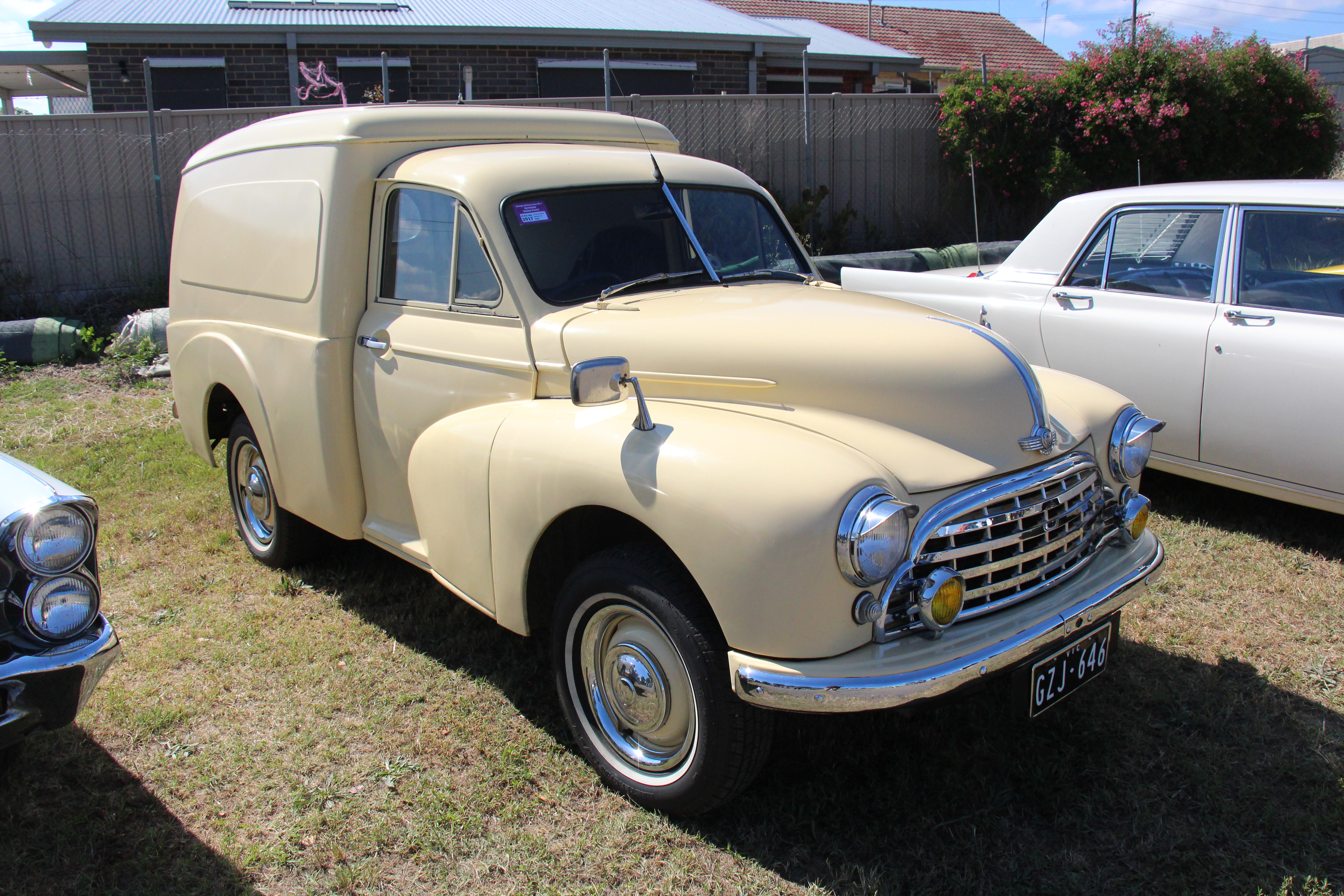 The MO Oxford replaced the Morris 10 and was built from 1948-54. It looked like an enlarged Minor with the same suspension, steering and brakes. It was available in 4 door saloon or 2 door Traveller estate with side wood panelling. It got a mild facelift in 1953 with a more open grille. The elongated 6 cylinder version was called the Morris Six MS and the Van and Pickup were called the Morris Cowley and built from 1950-56. Engine; 1476cc side valve 4 cyl